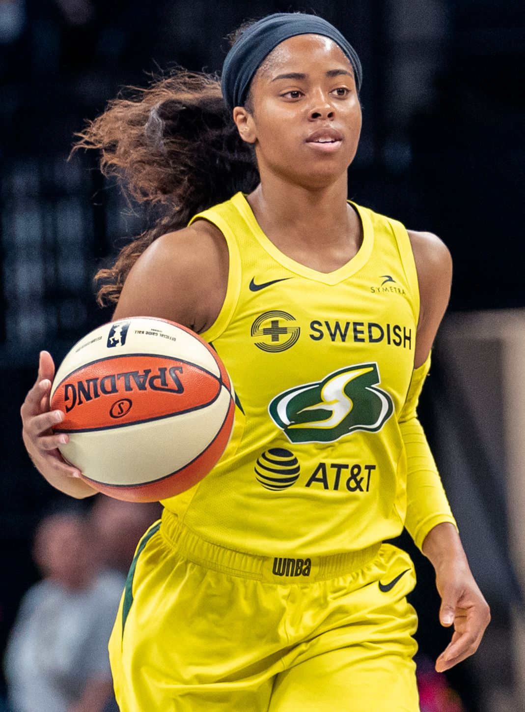 Seattle Storm guard Jordin Canada in a game against the Minnesota Lynx